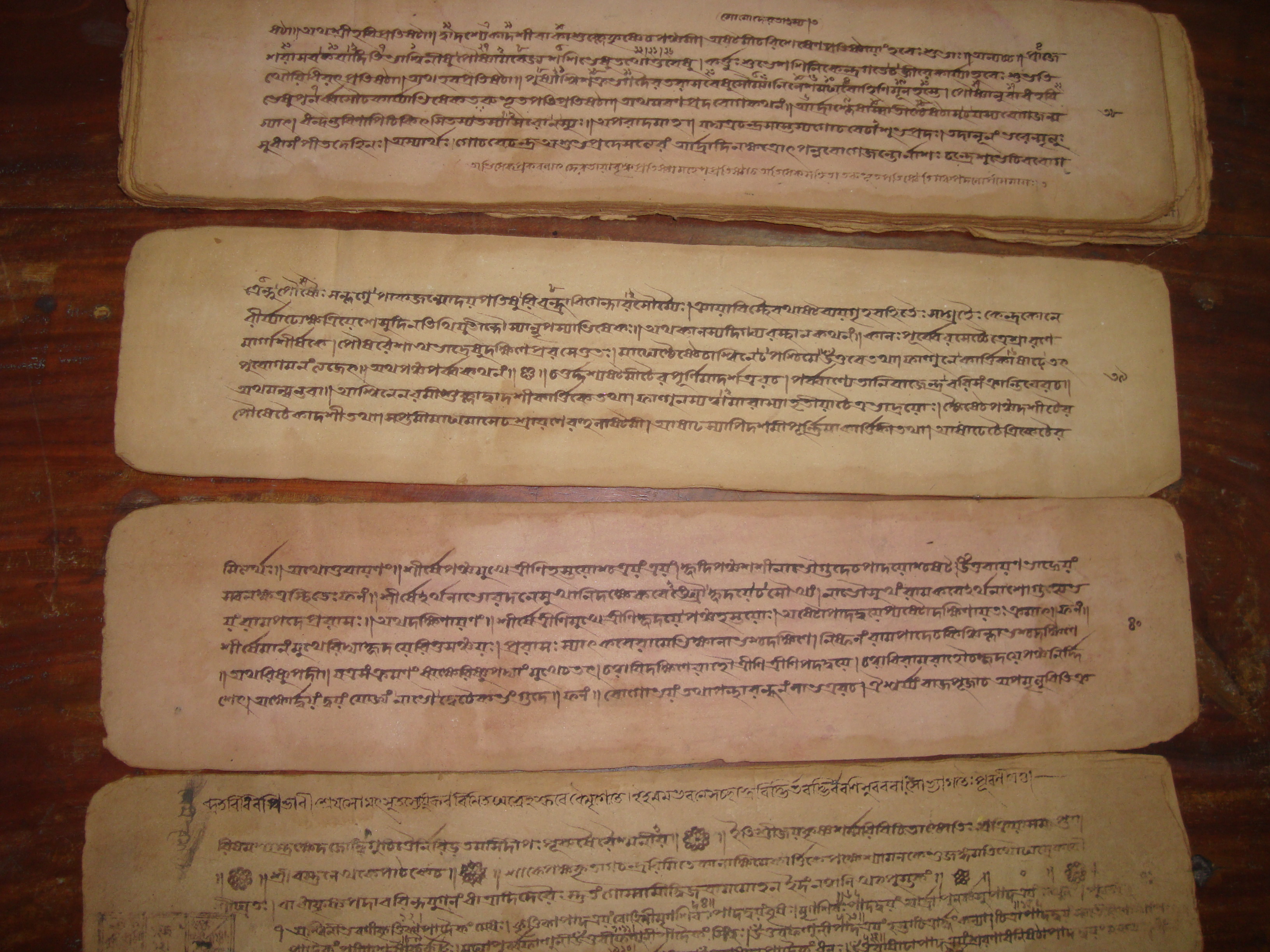 The Institution has the distinction for its Library containing both classics and recent edition of the books, journals and periodicals and it is acclaimed internationally the reliable source for the information available from the print matters.